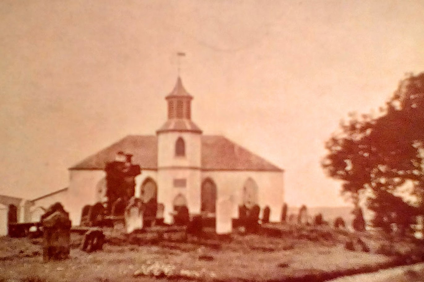 Balmaghie Kirk, Kirkcudbrightshire, Galloway, Scotland